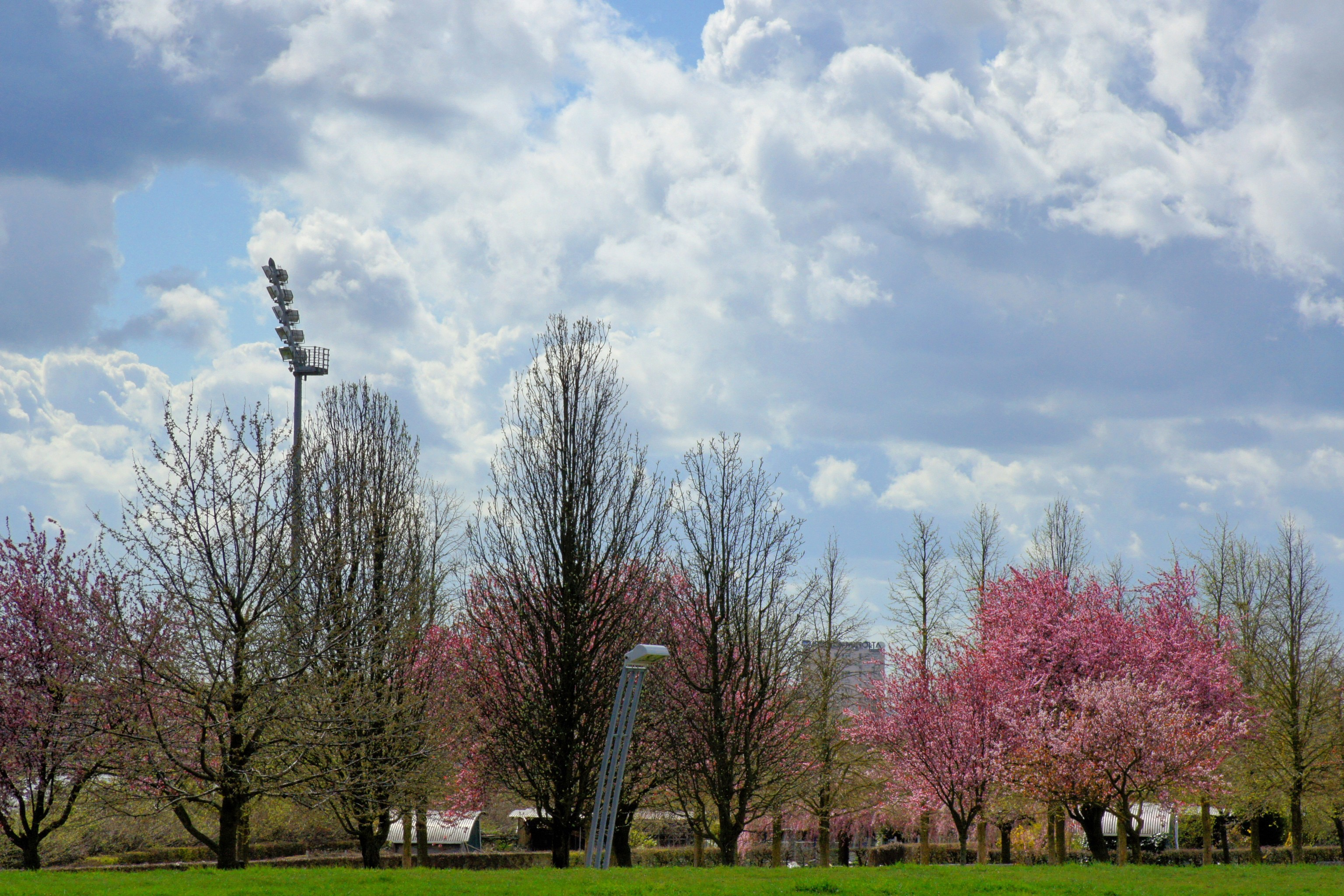 The parc départemental des Hautes-Bruyères (Hautes-Bruyères departmental park) in Villejuif (Val-de-Marne).